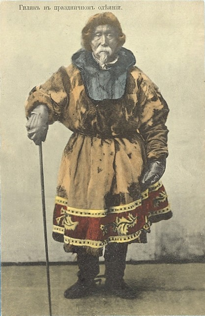 Postcard. Types of Russia: Gilyak (Nivkh)